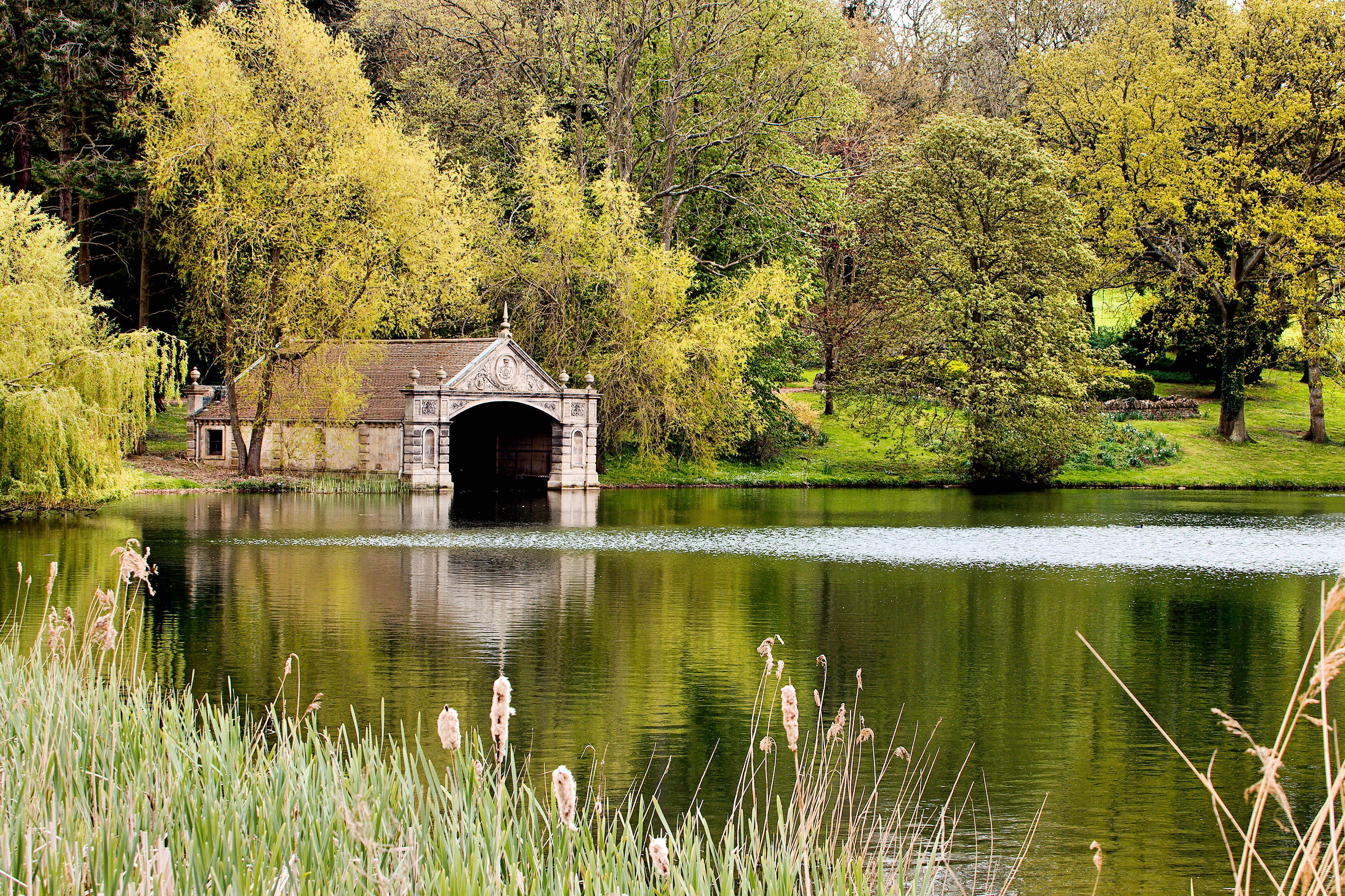 Burghley House